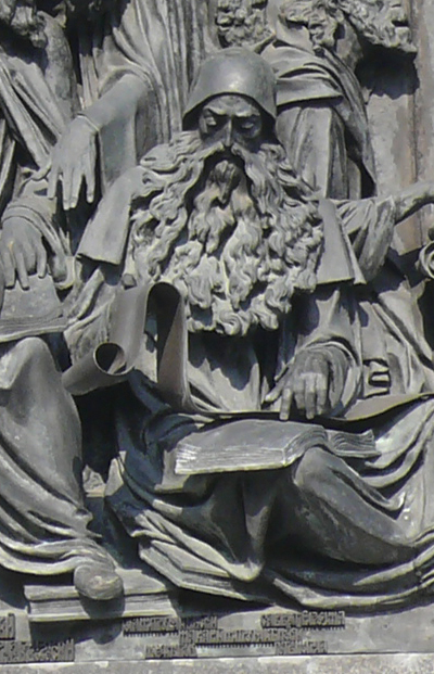 Maxim Grek on the Monument "Millennuim of Russia" in Veliky Novgorod